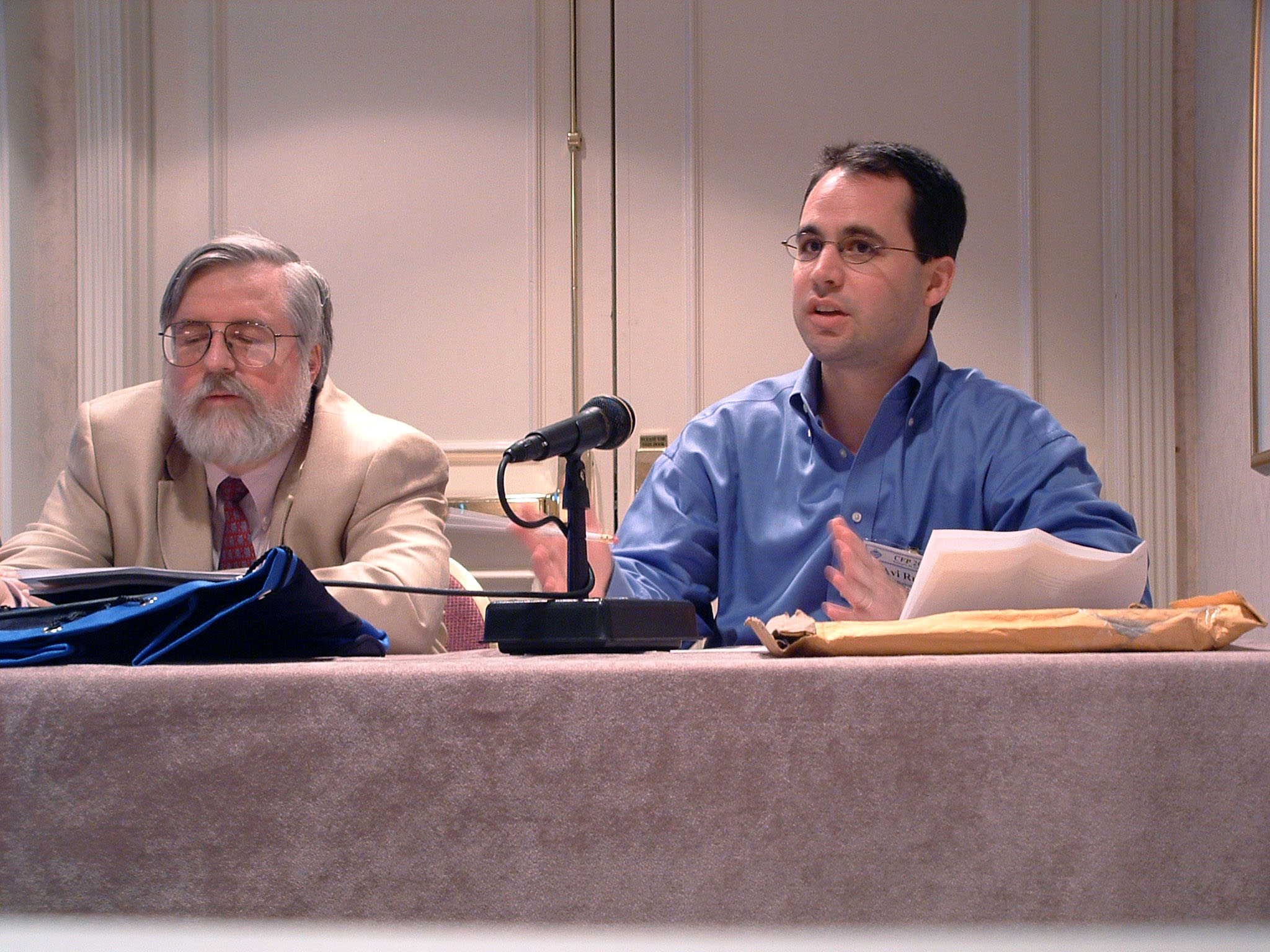 This is a picture of Avi Rubin at the Computers, Freedom and Privacy 2006 conference. To his left is Kimball Brace of Election Data Services.